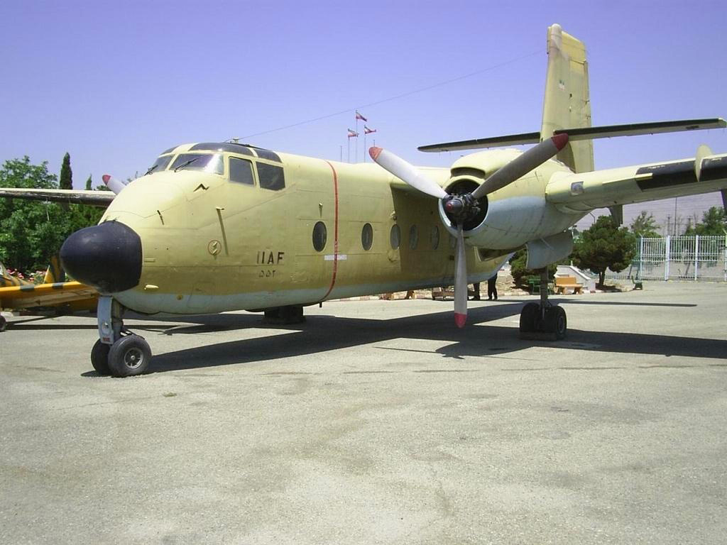 The old De Havilland Canada DHC-4A Caribou At the Tehran Aerospace Exhibition Center. This old Caribou participated in Iran-Iraq War. This is the only de Havilland Canada DHC-4 Caribou in Iran.